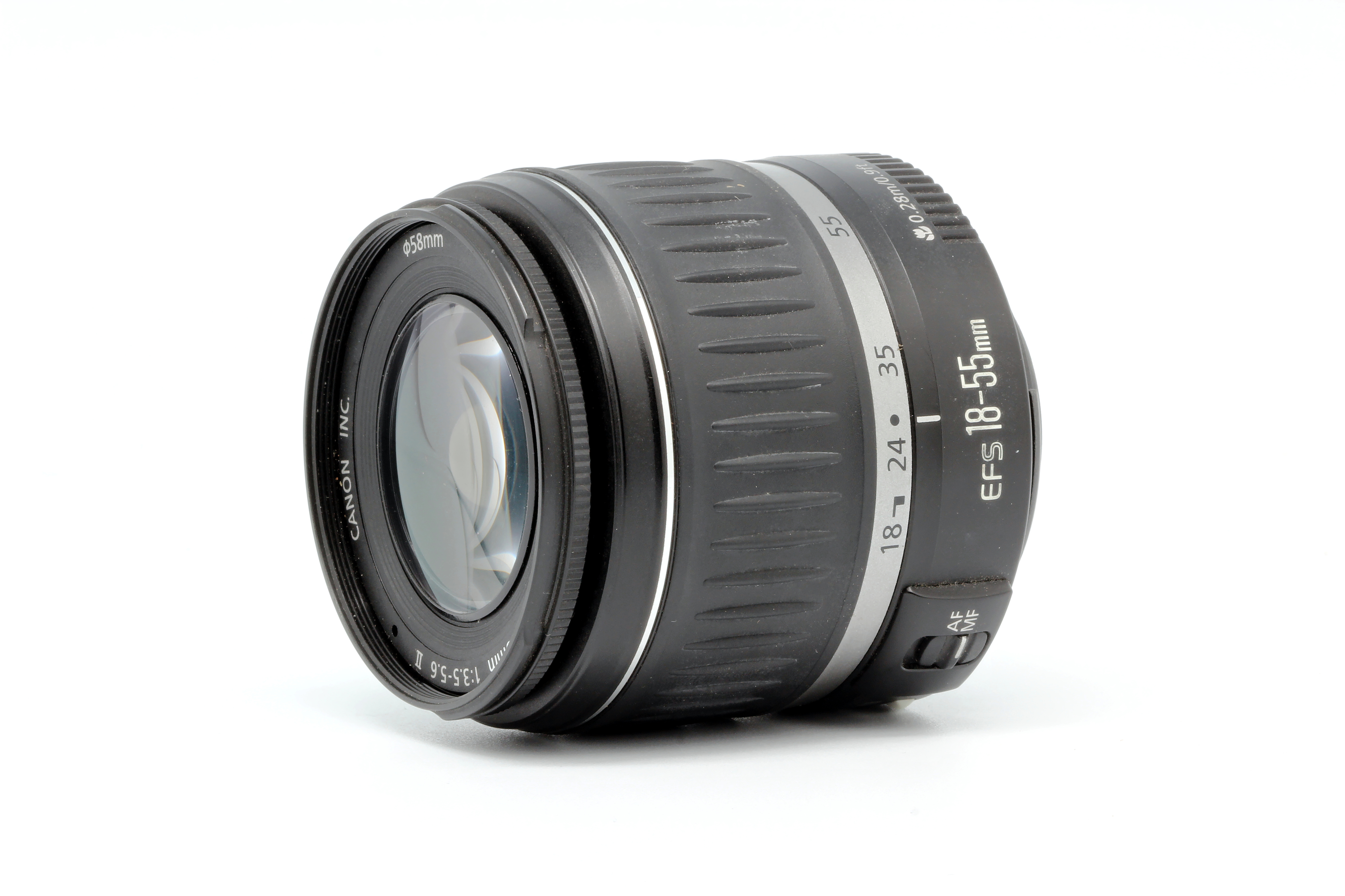 Canon EF-S 18-55mm F3.5-5.6 II